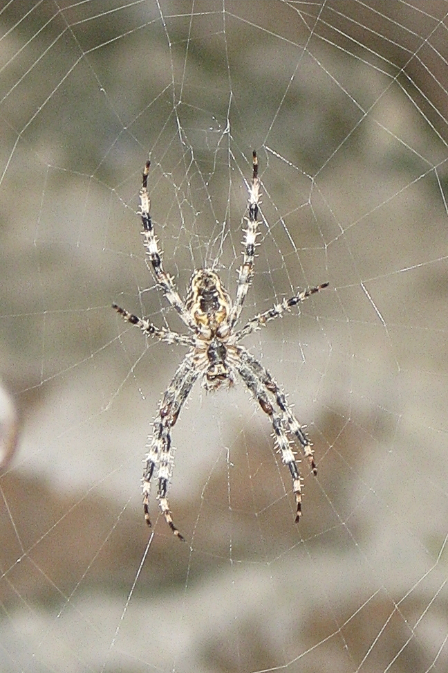 Orb-weaver spider, Radnetzspinne